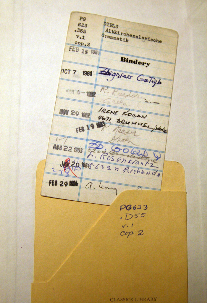 A book card and a date slip